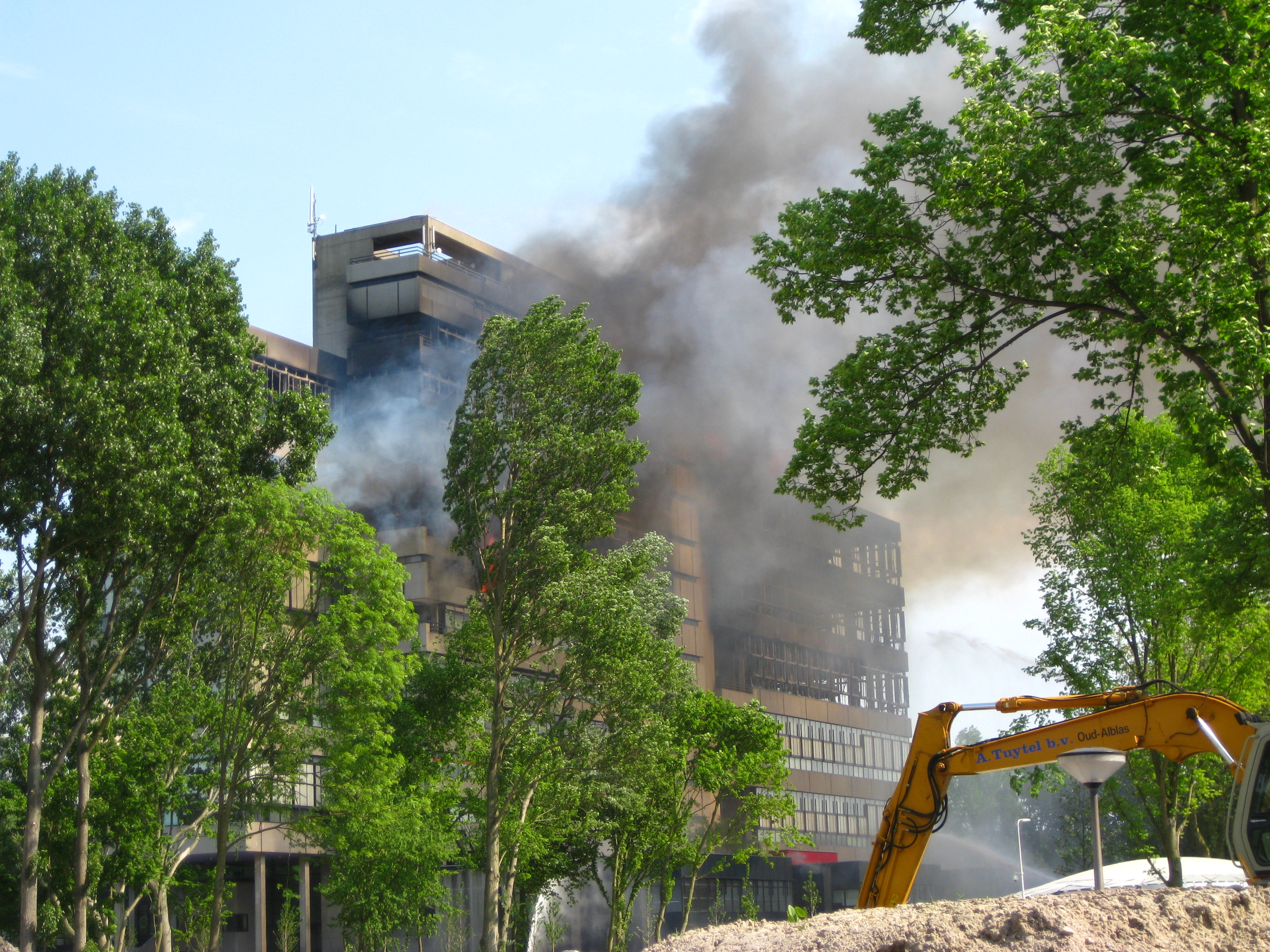 TU Delft Architecture Faculty fire.